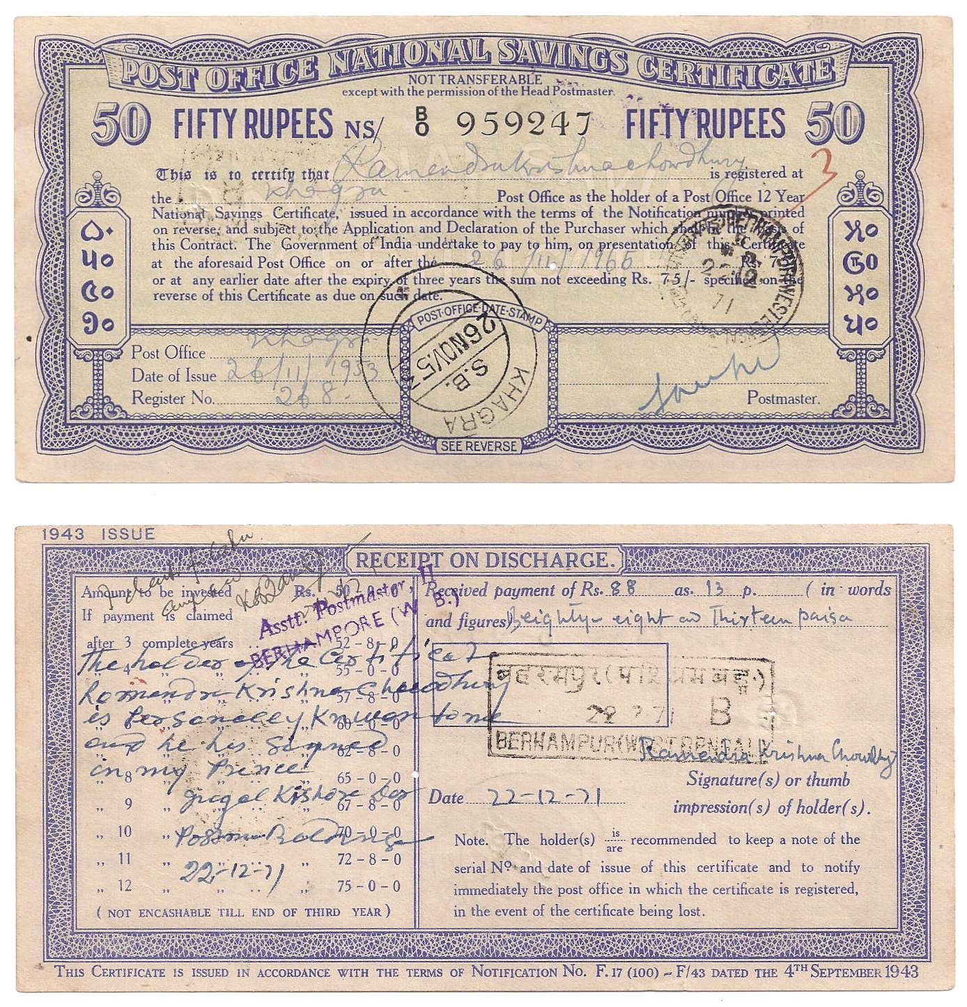 India 1953 50R Post Office National Savings Certificate front and back.